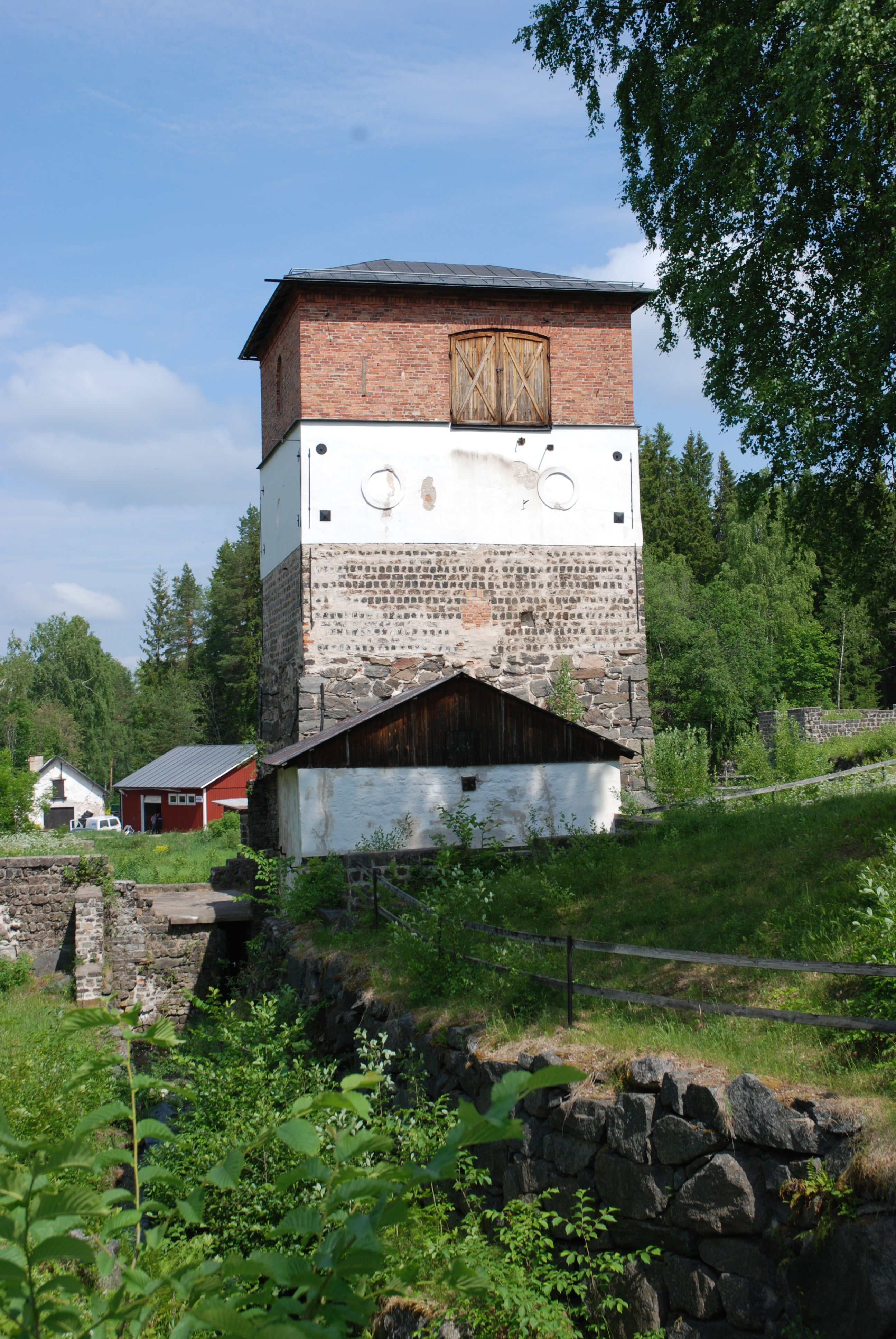 Edsbro Iron Works